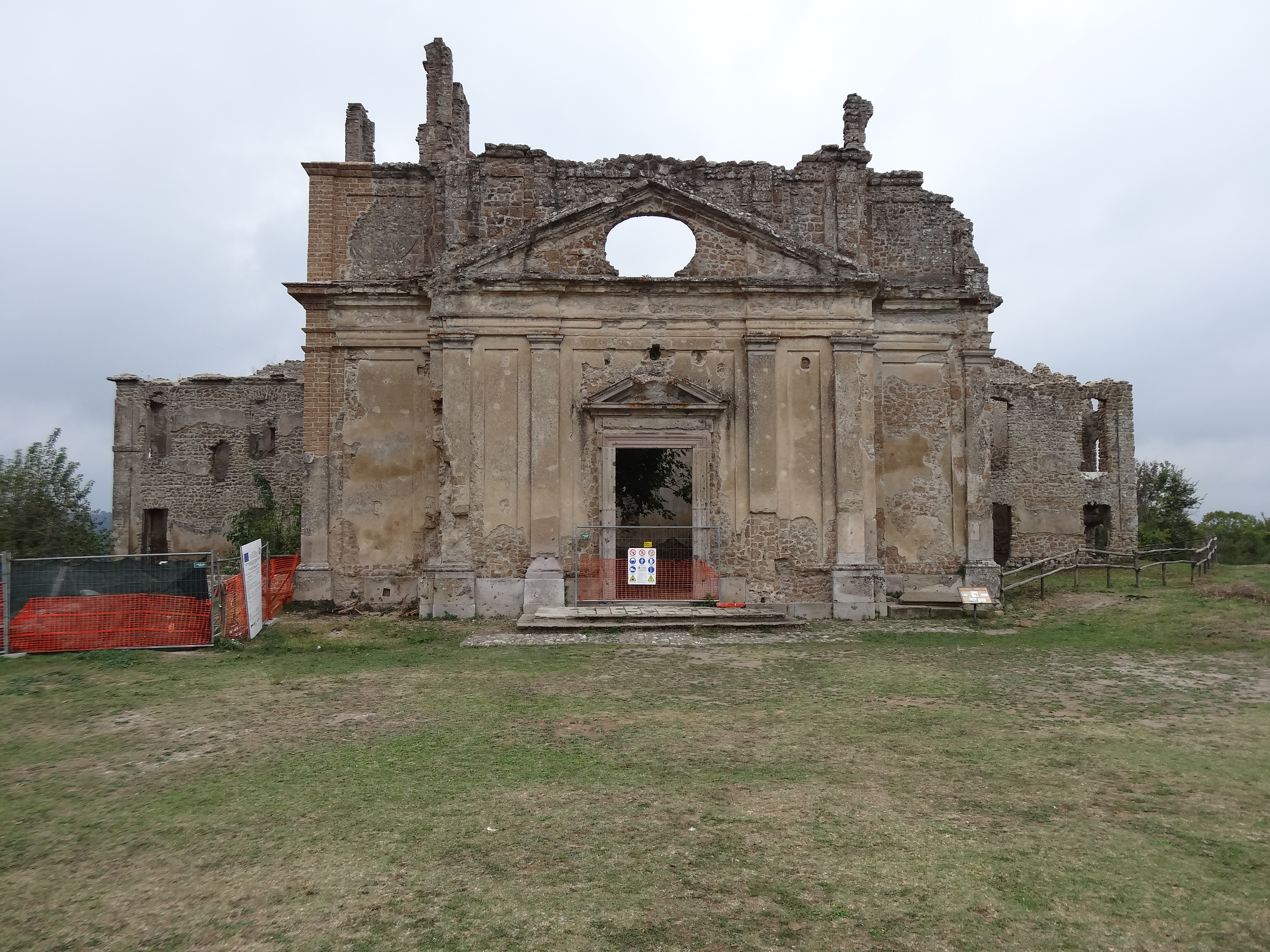 San Bonaventura Monterano